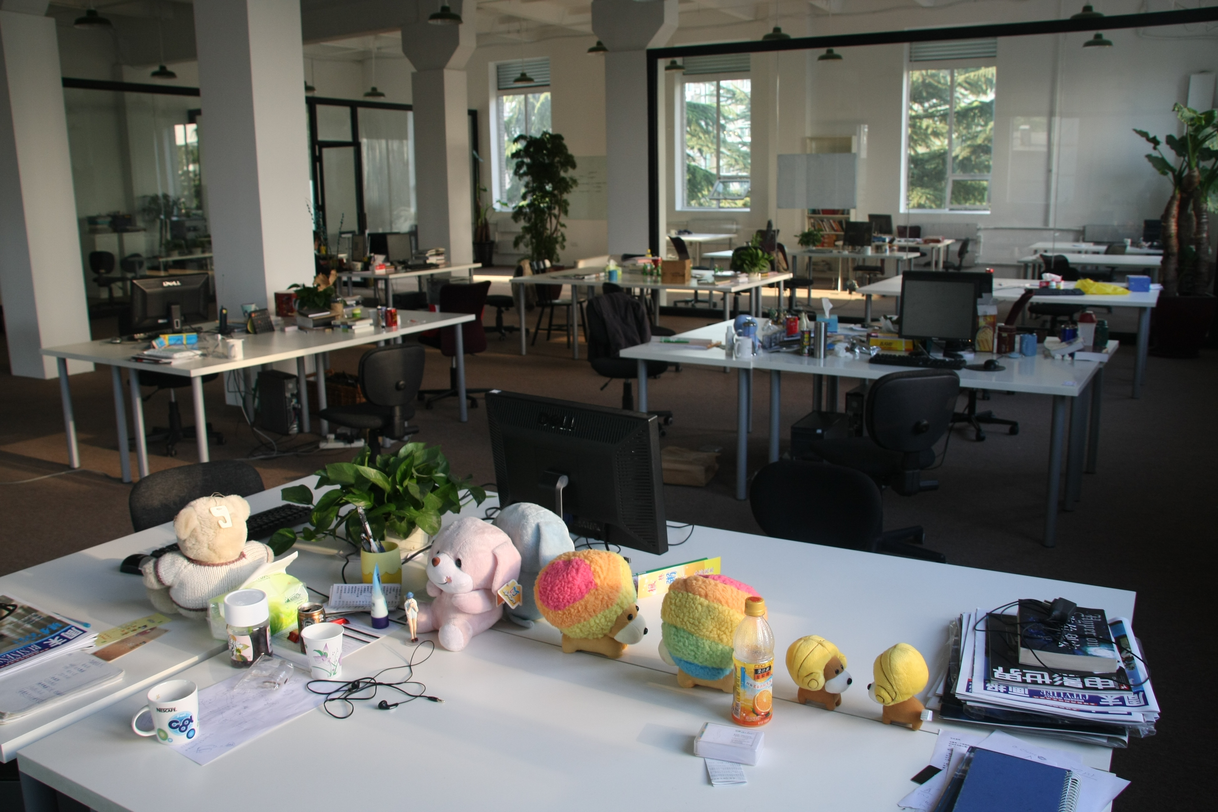 豆瓣网的办公室（中国北京市朝阳区酒仙桥路2号01商务楼） Office of the Chinese Web 2.0 website (2 Jiu Xian Qiao Road, Chaoyang District, Beijing, P.R.China)